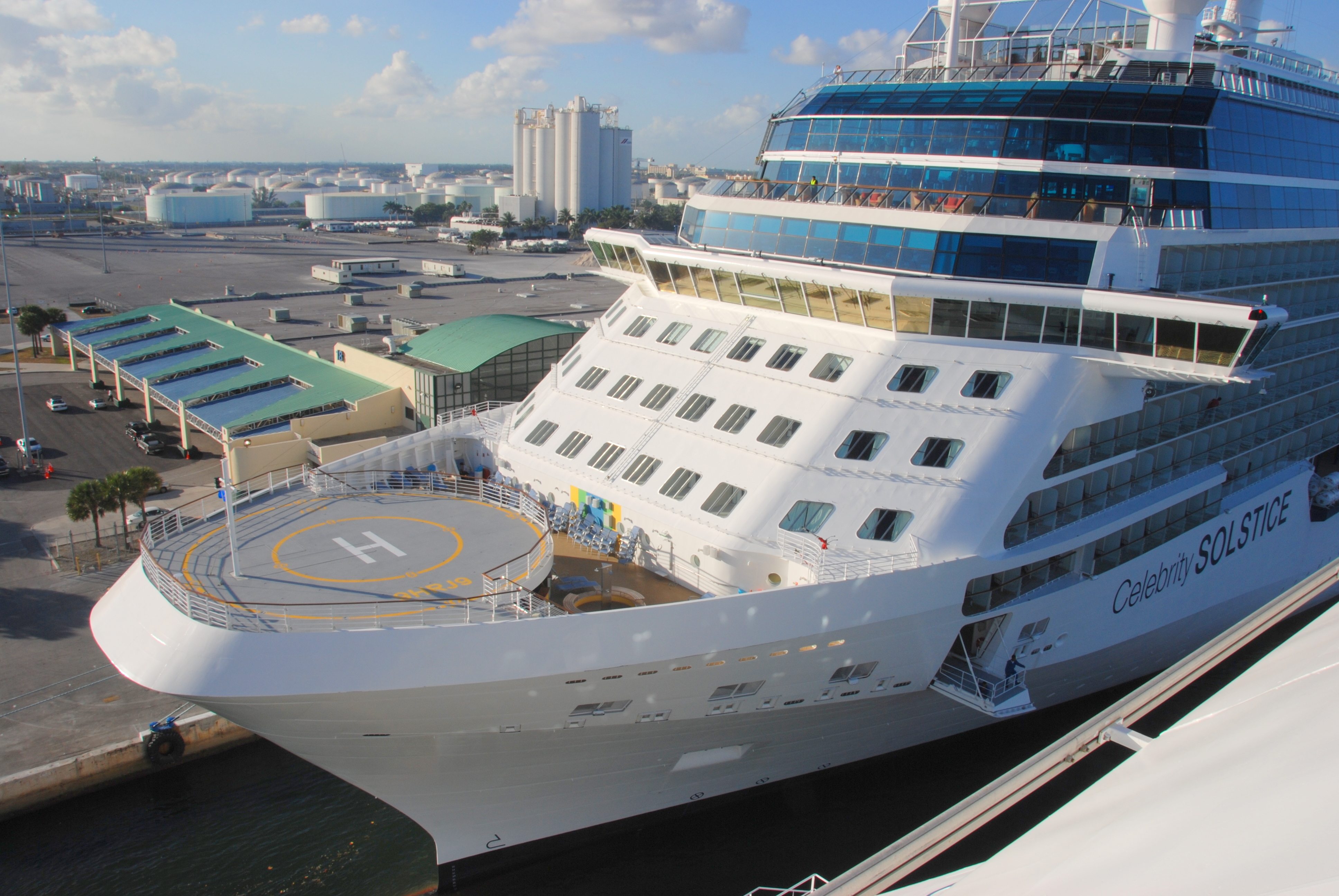 Cruise ship Celebrity Solstice in Port Everglades